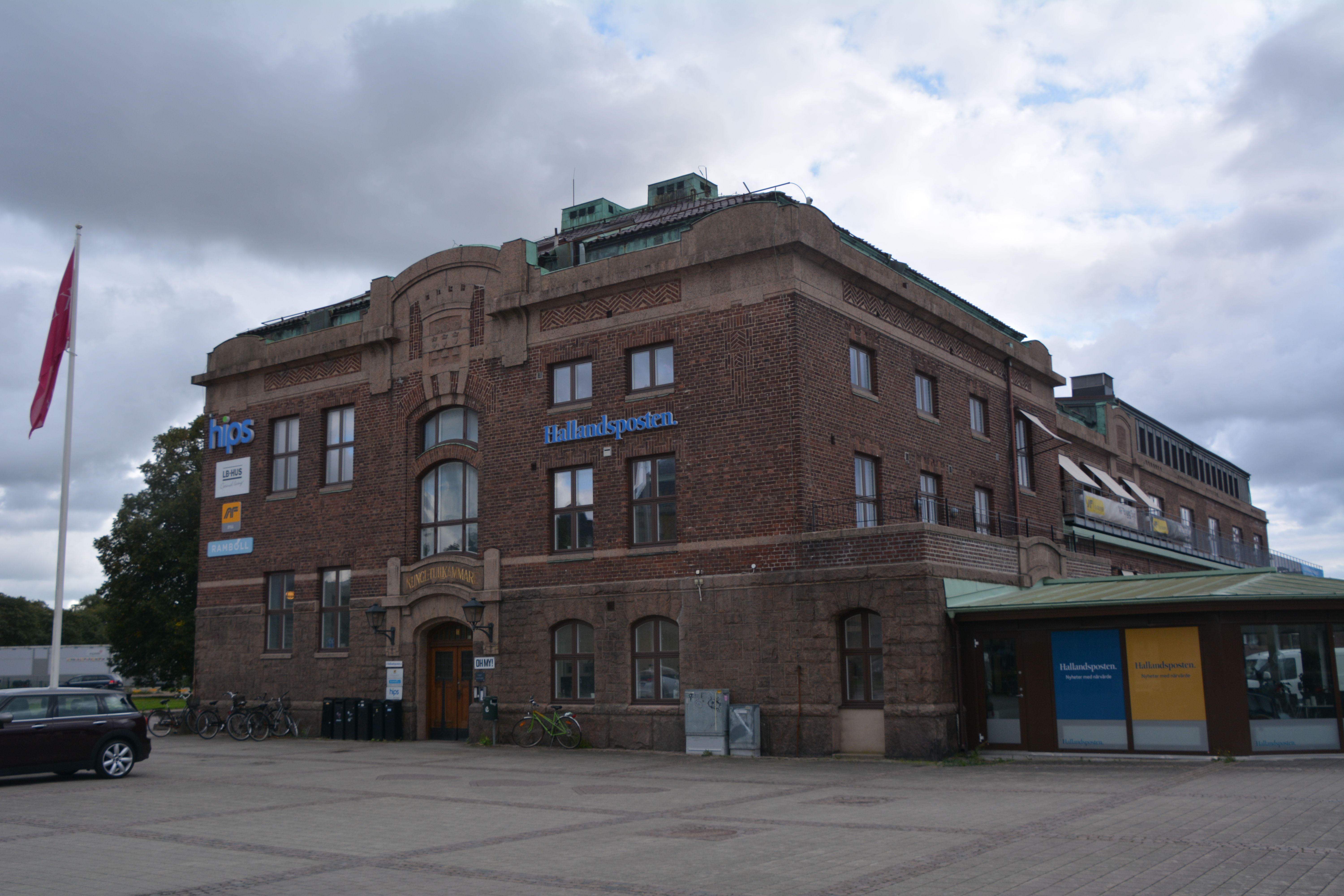 Tullhuset i Halmstad